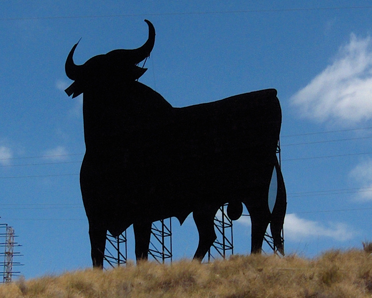 Toro de Osborne banner, Alicante, Spain